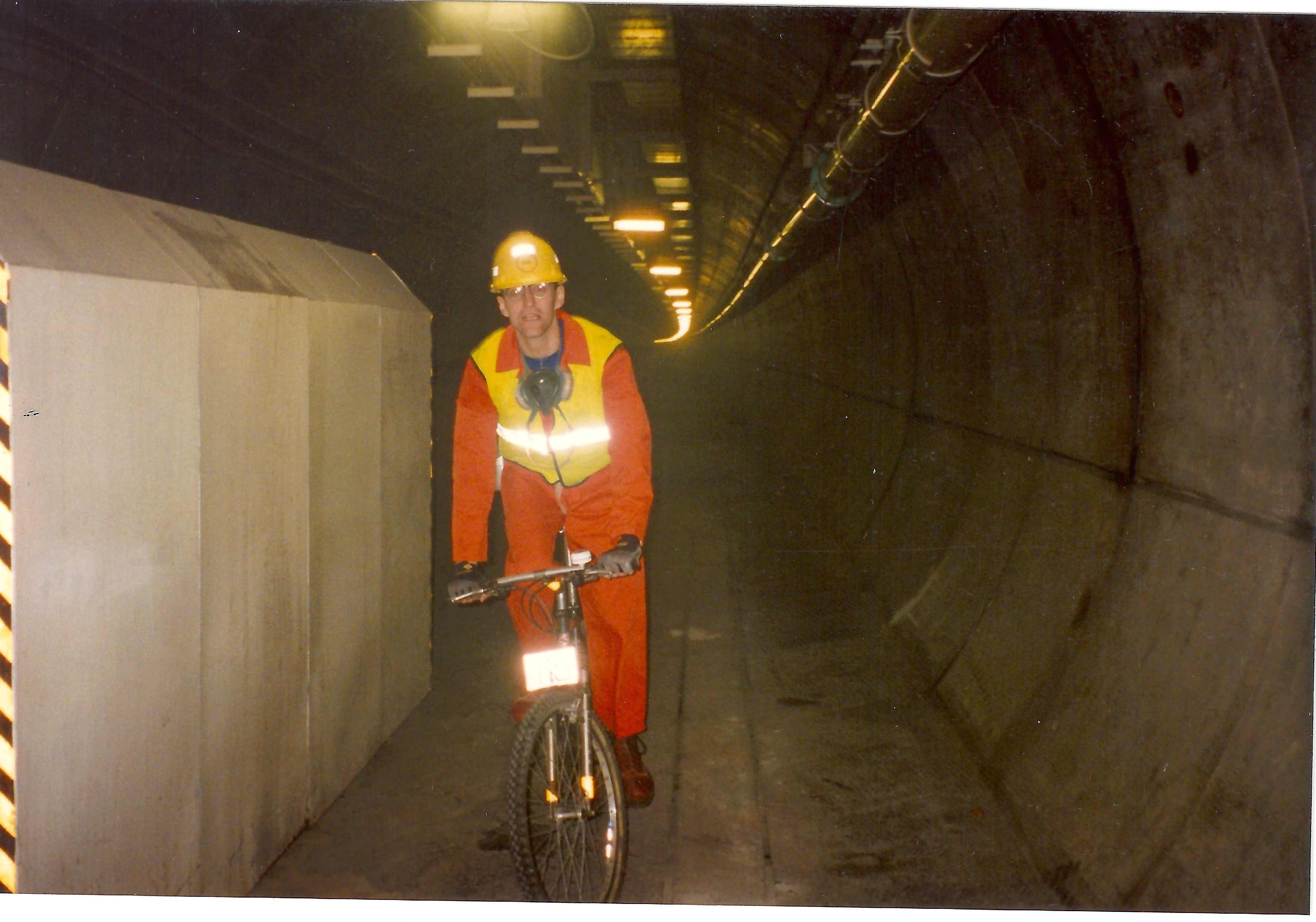 Mike Turner on a Bike in Channel tunnel c1993